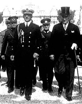 Mustafa Kemal Atatürk and Alexander I of YugoslaviaTürkçe: Mustafa Kemal Atatürk ve Yugoslavya kralı I. Aleksandar